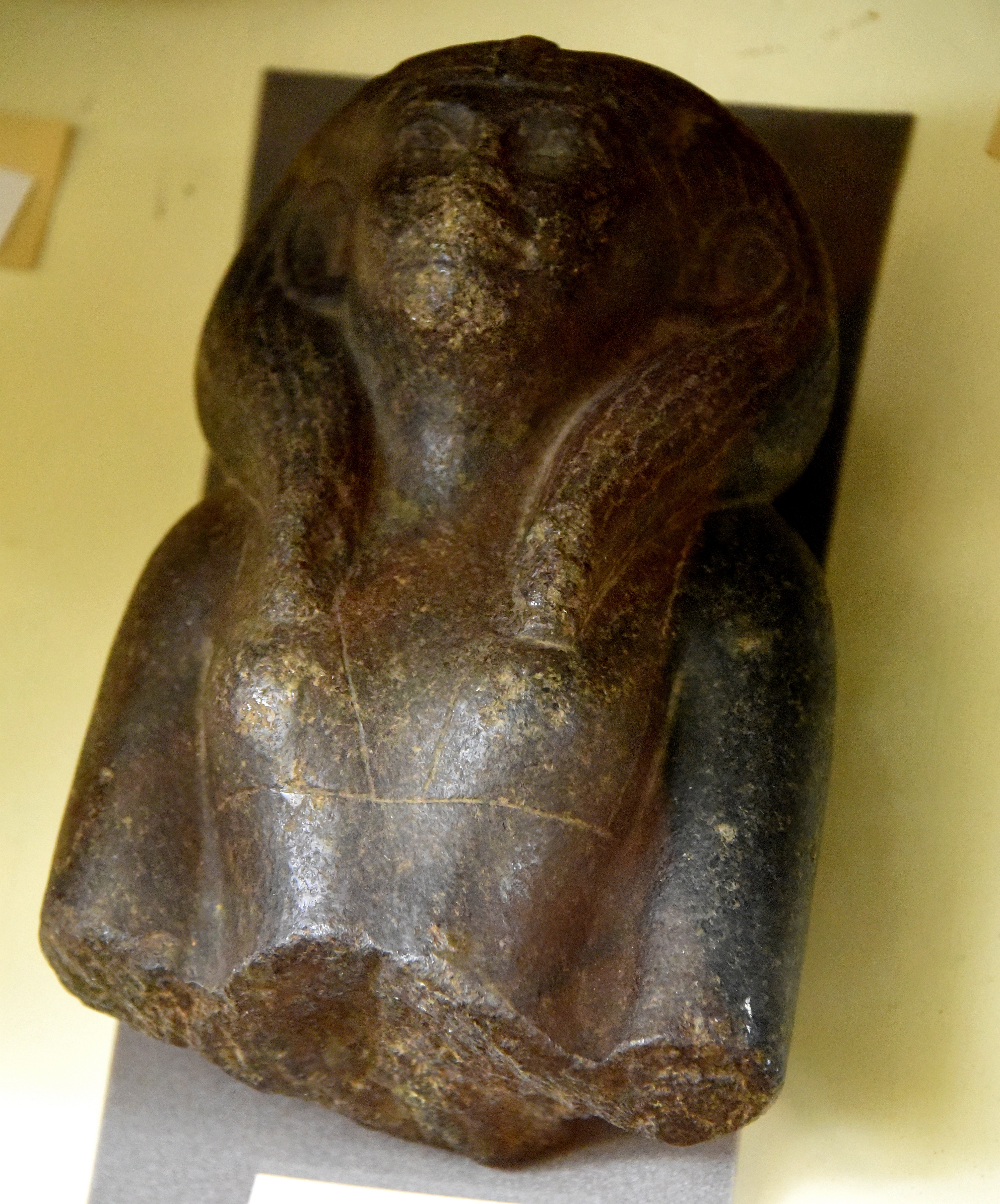 Upper part of a statuette of an unidentified queen. The nose was deliberately battered. Black granite. Early 12th Dynasty. From Egypt. The Petrie Museum of Egyptian Archaeology, London. With thanks to the Petrie Museum of Egyptian Archaeology, UCL.